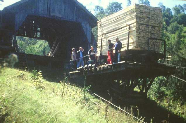 Inclined plane on the forest railway Covasna - Comandau (Romania)- upper station.